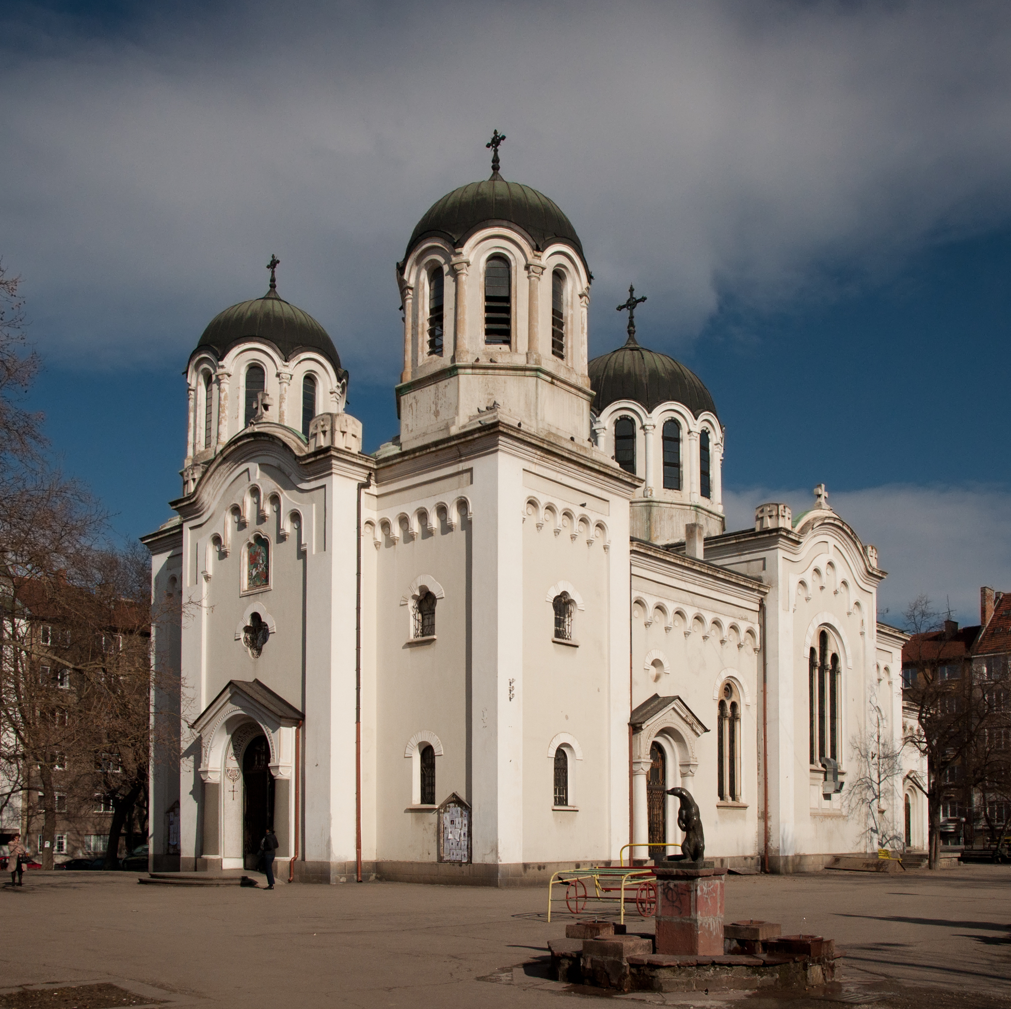 St. George the Conqueror Church in Sofia, Bulgaria.